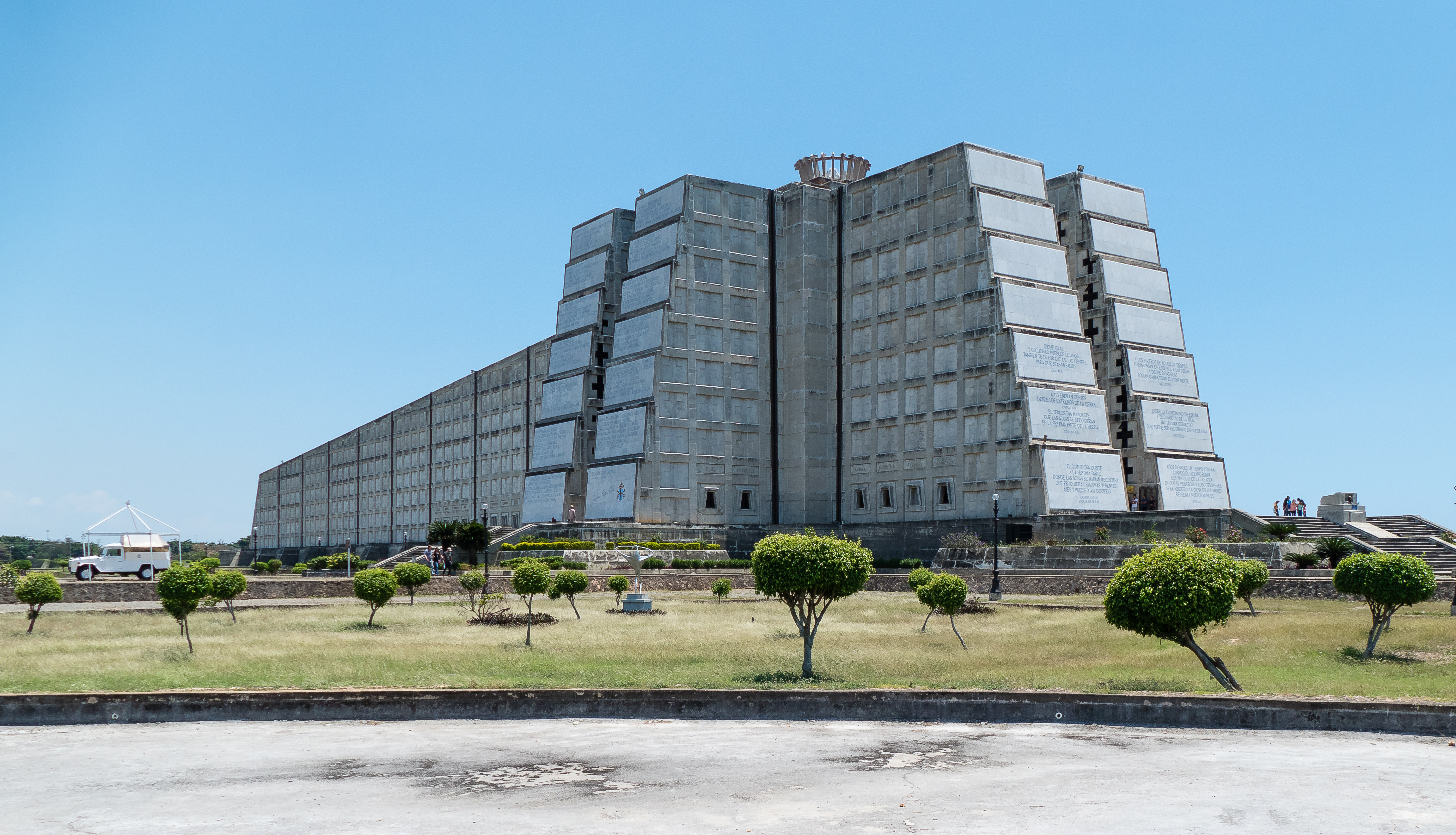 Santo Domingo - Faro a Colón (Columbus Lighthouse) from North-West, April 2017